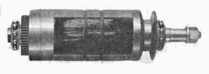 Magneto armature (Army Service Corps Training, Mechanical Transport, 1911).jpg